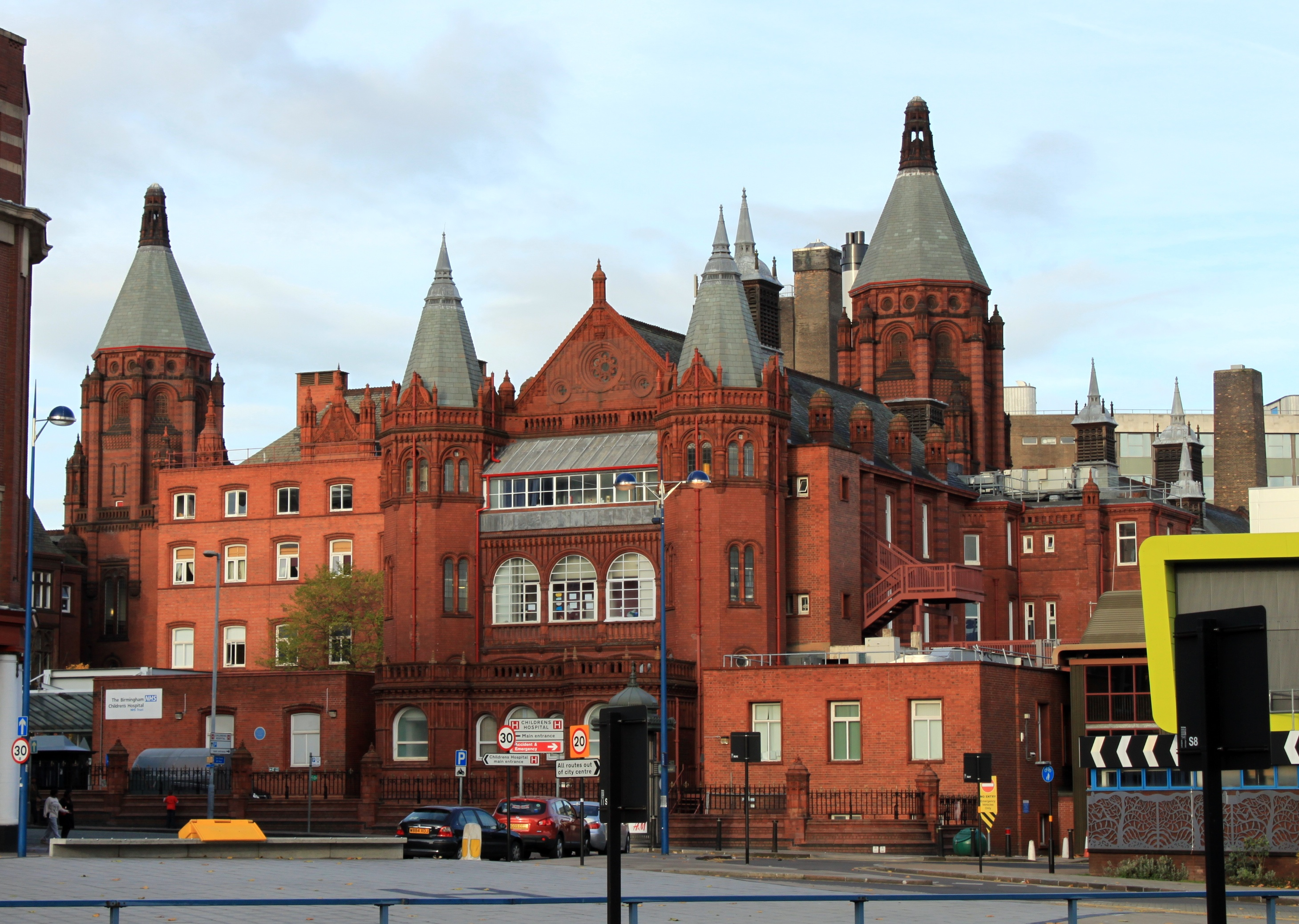 Birmingham Children's Hospital, Birmingham, UK